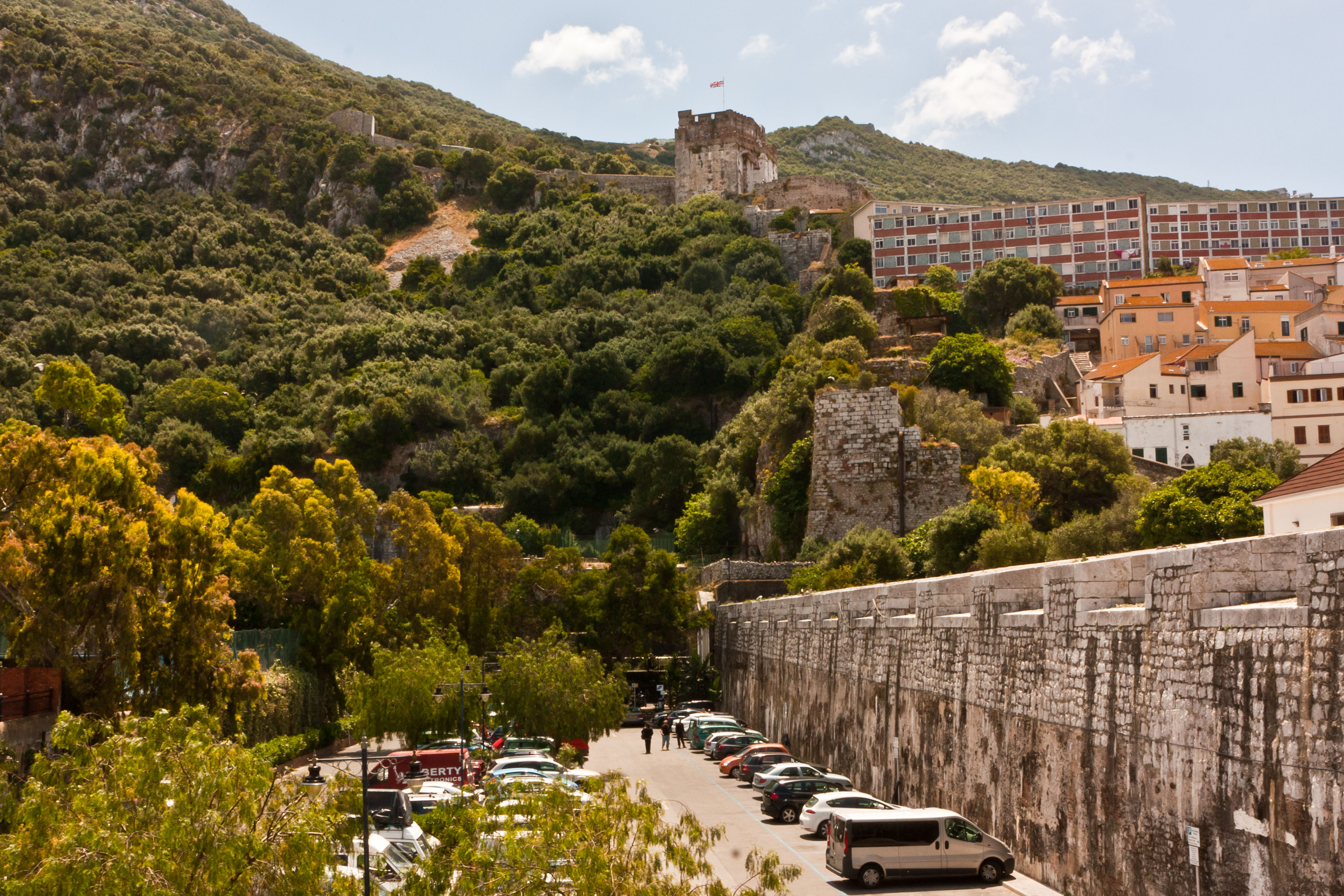 Gibraltar's Northern Defences as seen from Smith-Dorrien Bridge.